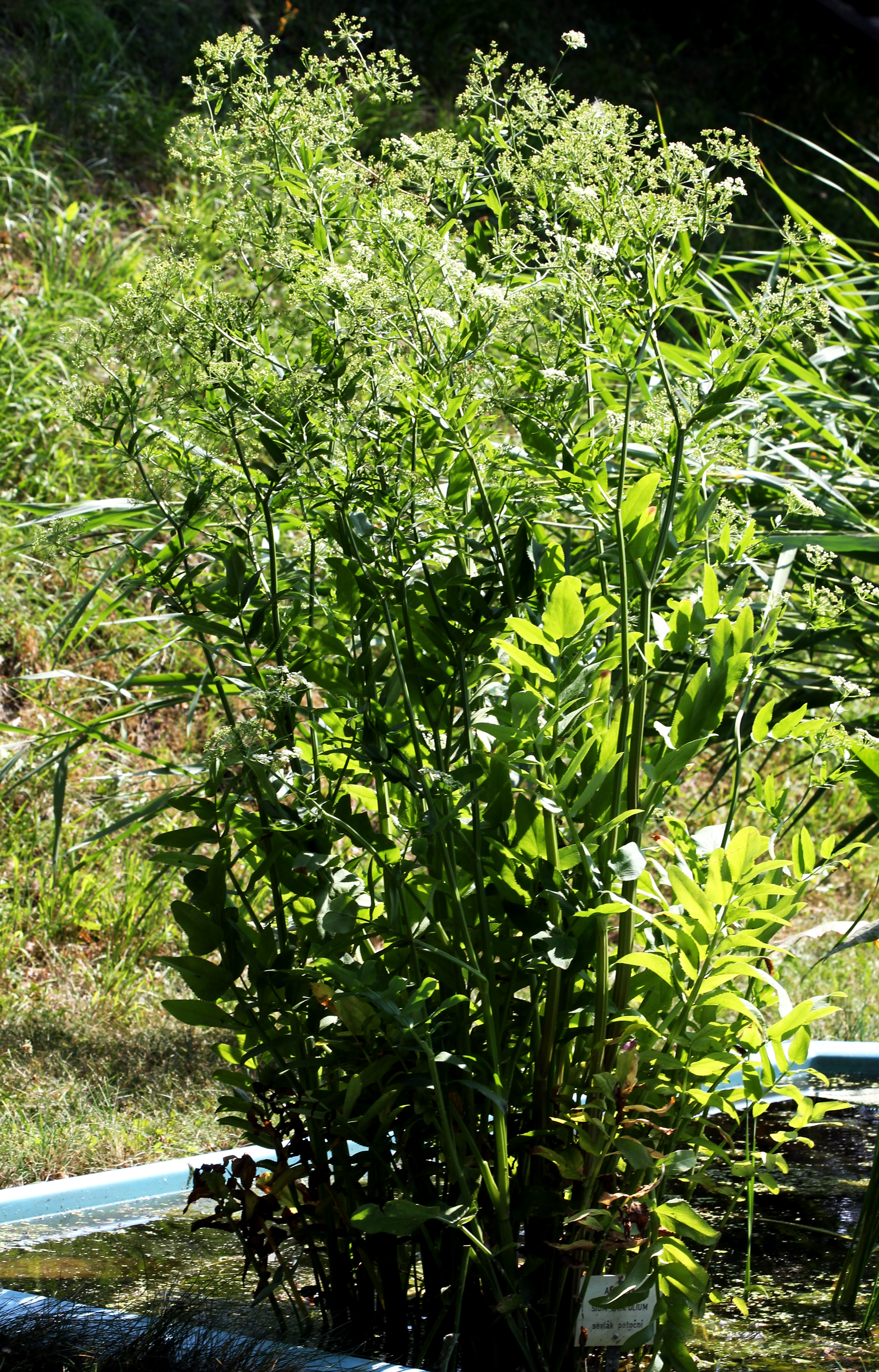 Plant Sium latifolium, (Sium latifolium), the Botanical Gardens of Charles University, Prague, Czech Republic